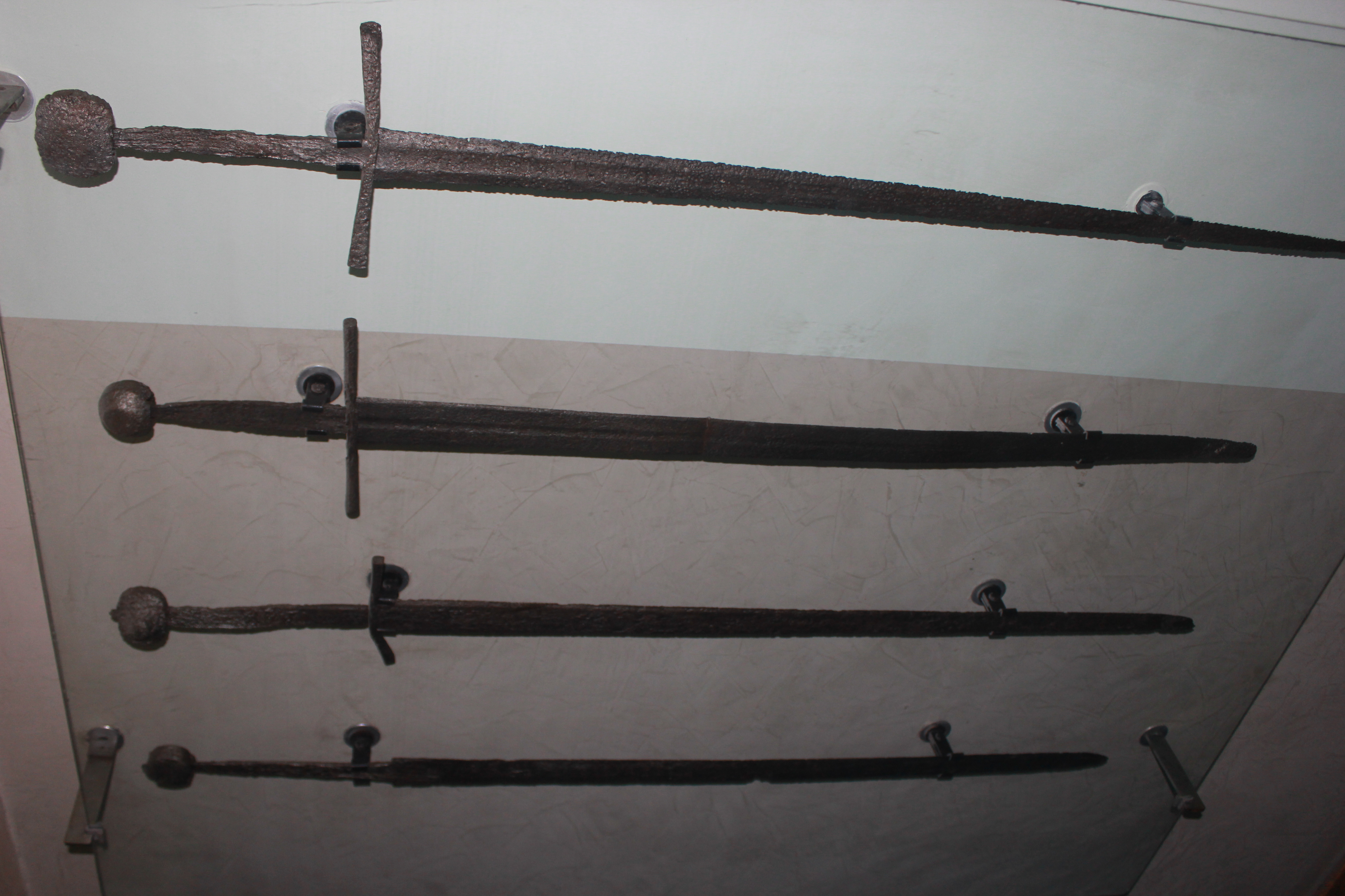 Sowrds used by Serbian knights and soldiers in XIV century